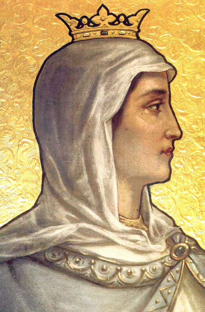 19th-century depiction of Saint Elizabeth of Aragon, Queen of Portugal, on the ceiling of the Kings' Room, Quinta da Regaleira, Sintra, Portugal.